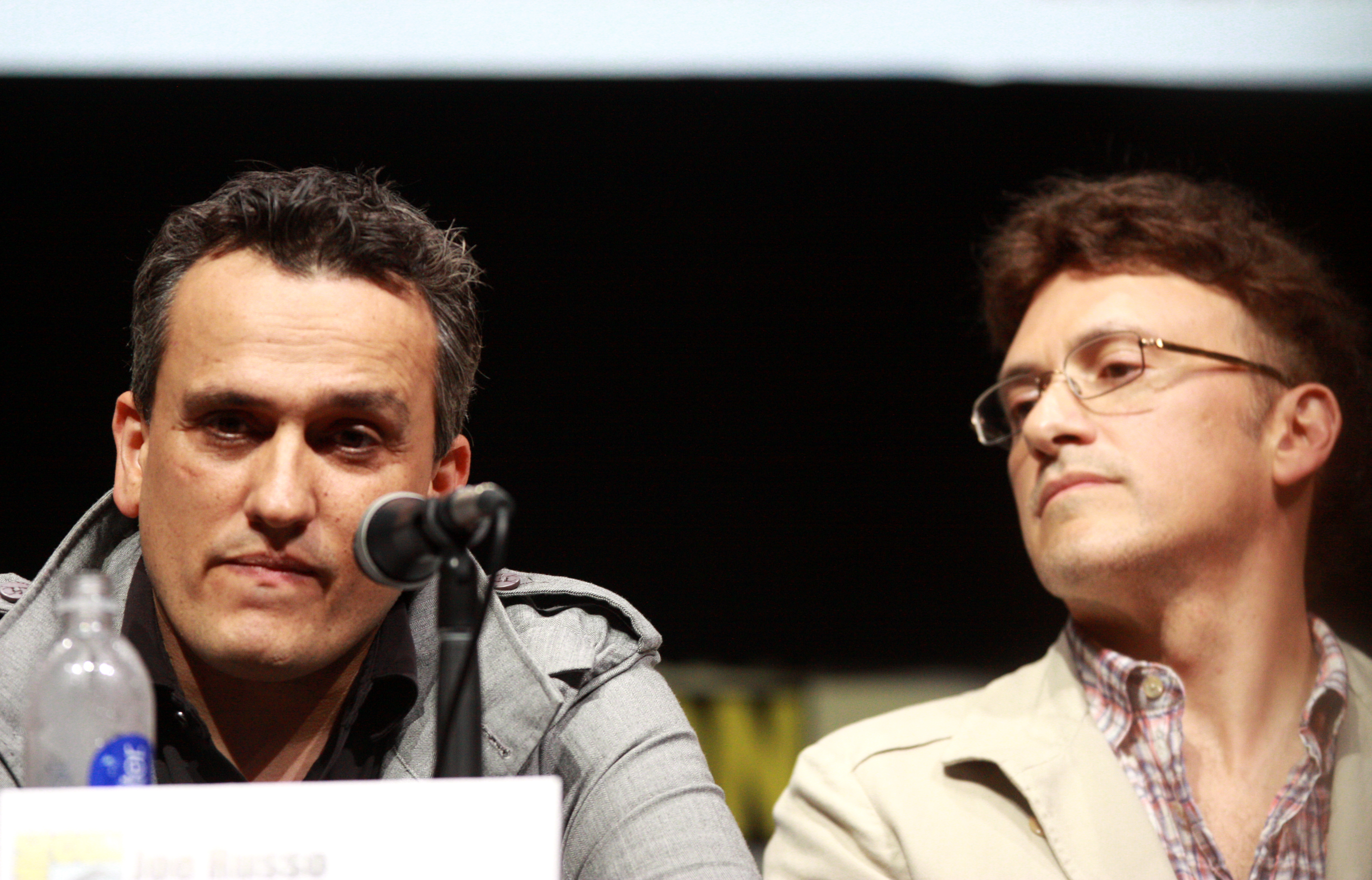 Russo brothers at the 2013 San Diego Comic Con International in San Diego, California.